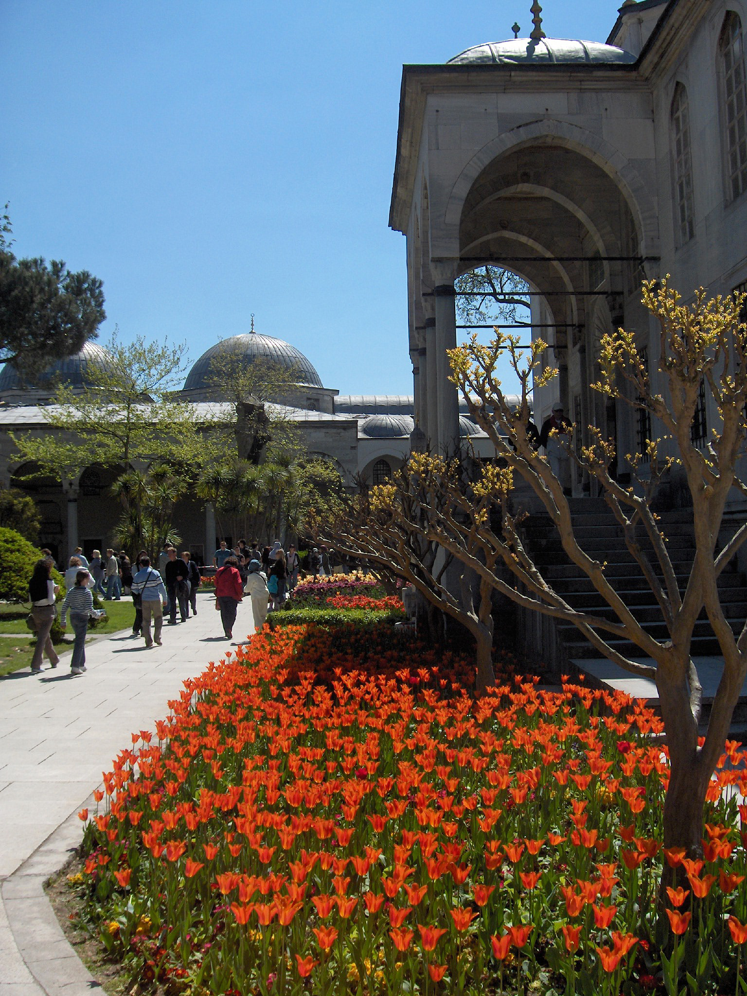 Garden with Tulips; Topkapı Palace, Istanbul, Turkey